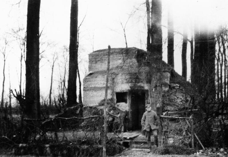 Bunkerunterstand bei Fromelles, Juli 1916 Information added by Wikimedia users.